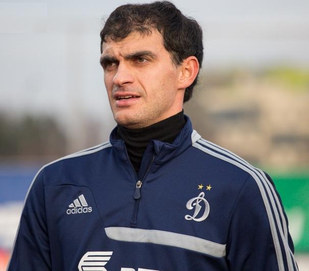 Vladimir Gabulov with FC Dynamo Moscow in November 2013.